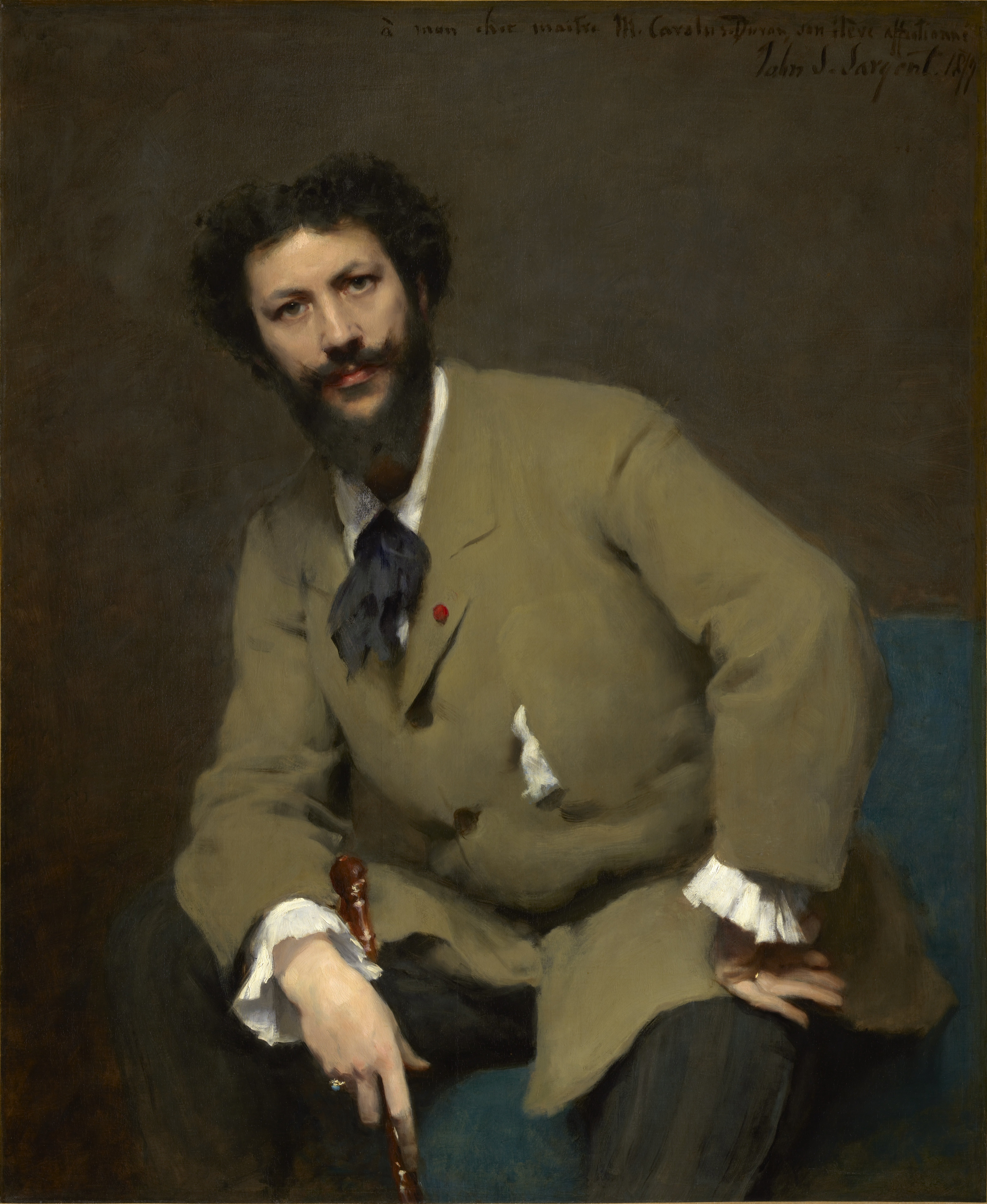 Inscribed, upper right: a mon cher maitre M. Carolus Duran, son eleve affectione/John S. Sargent 1879